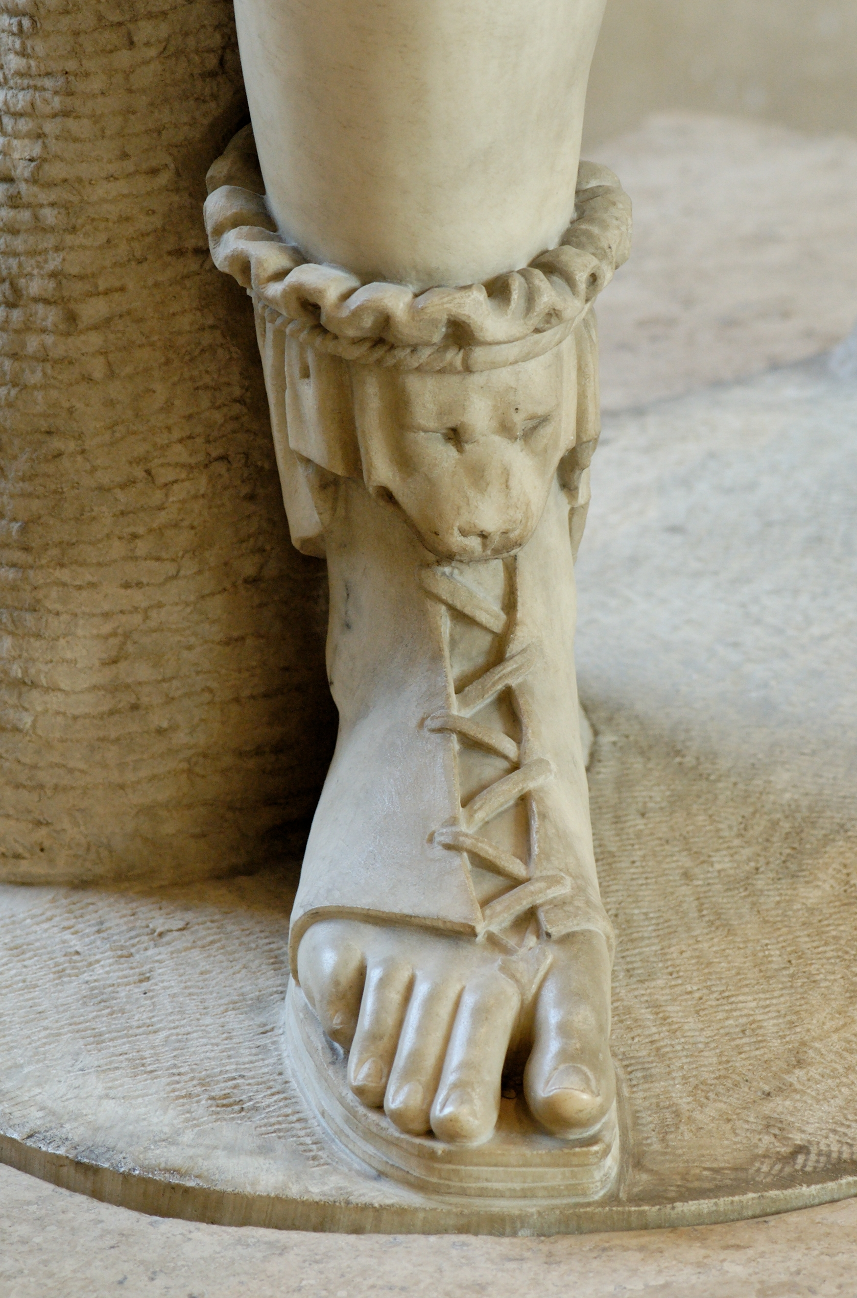 Artemis of the Rospigliosi type, detail of the footwear (right foot). Marble, Roman copy of the 1st–2nd centuries CE after a Hellenistic original, maybe the the bronze group mentioned by Pausanias (I, 25, 2), which represented a gigantomachia.